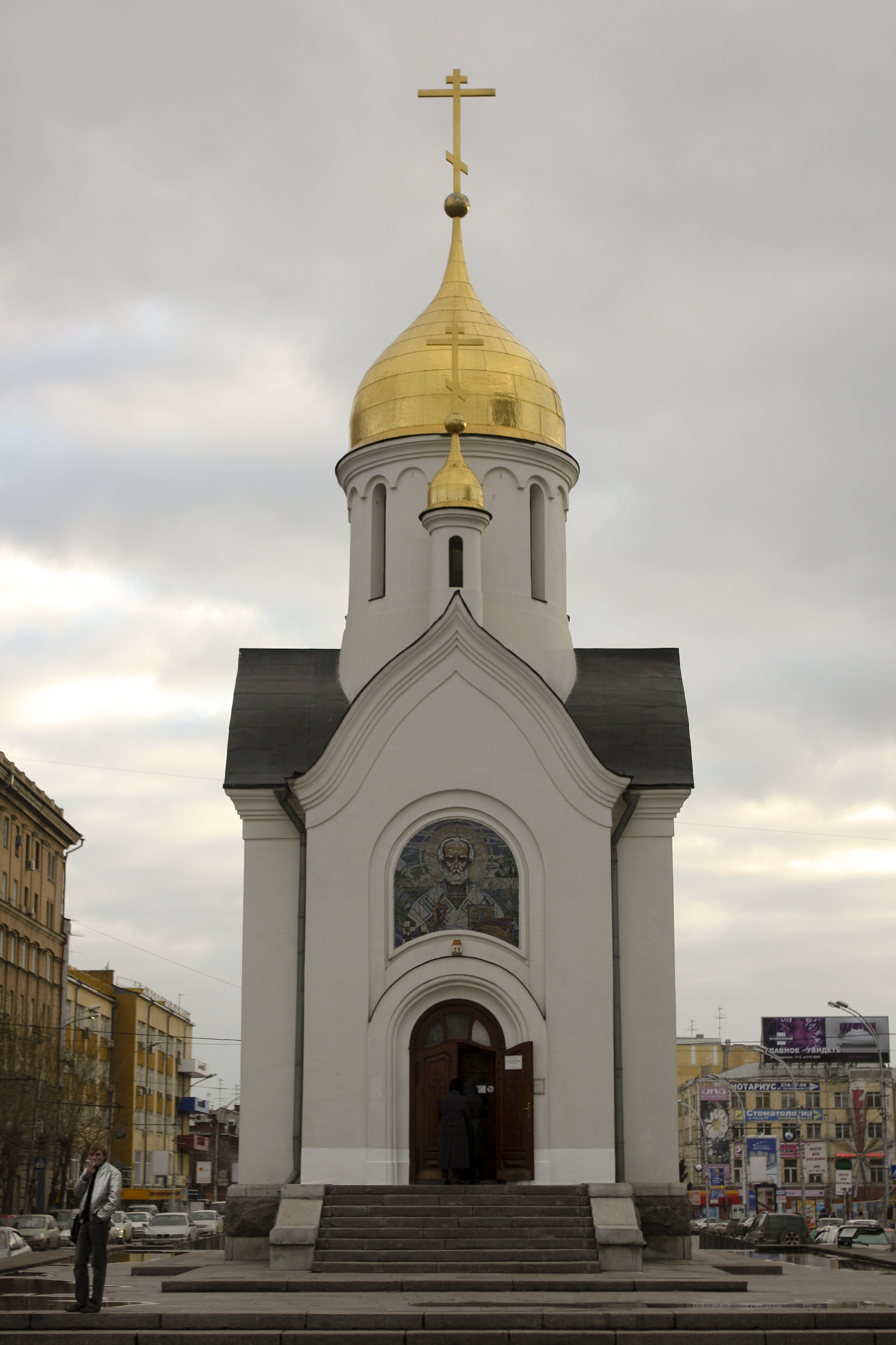 Original caption: Rumor is the Nicholi Chapel in Novosibirsk once marked the geographical center of the Russian empire. Today... not so much.